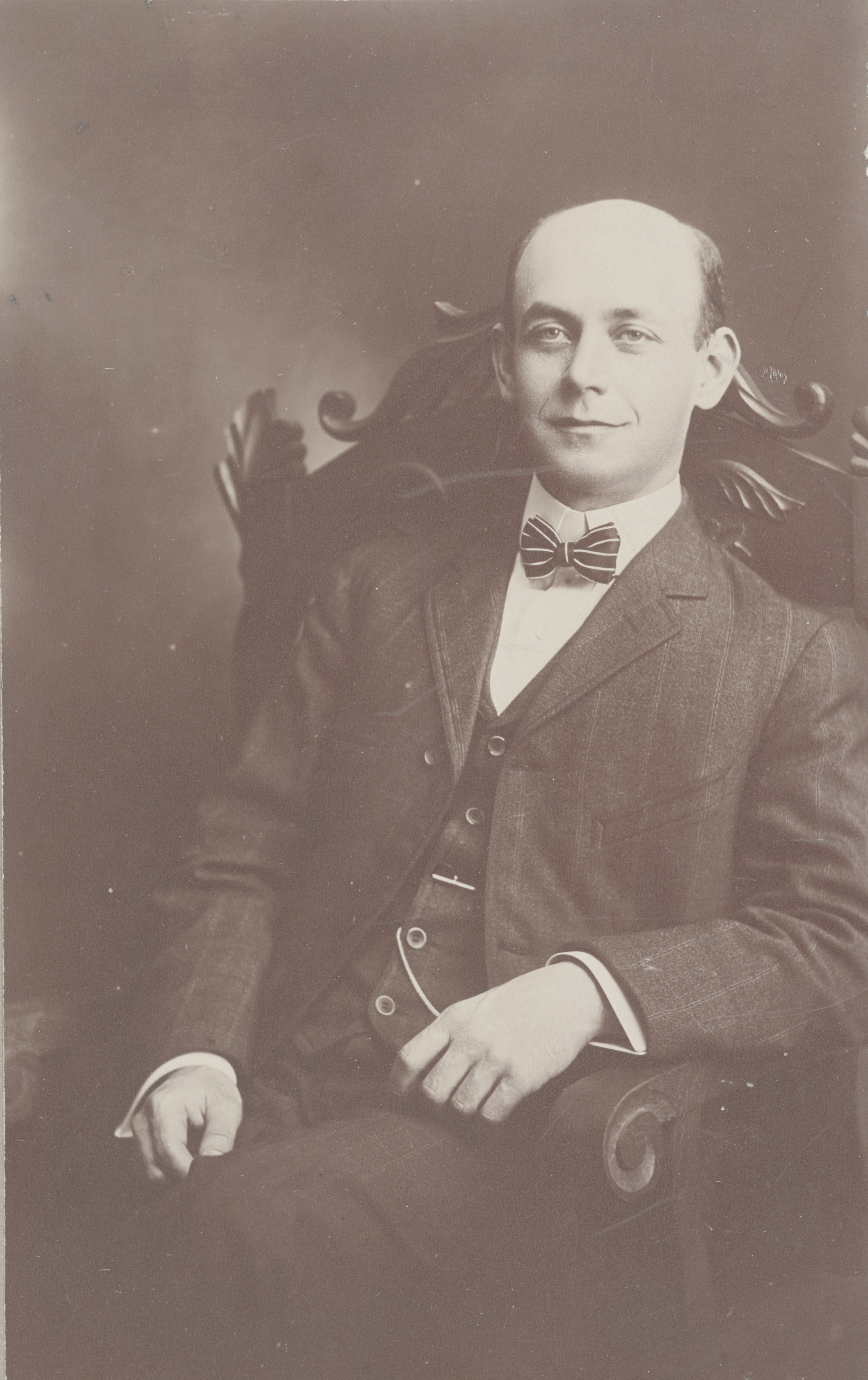 Todd, Walter Edmond Clyde, 1874-1969. Notations on verso: "W.E. Clyde Todd, Jan. 1908" and "Recd. Nov. 20, 1928."